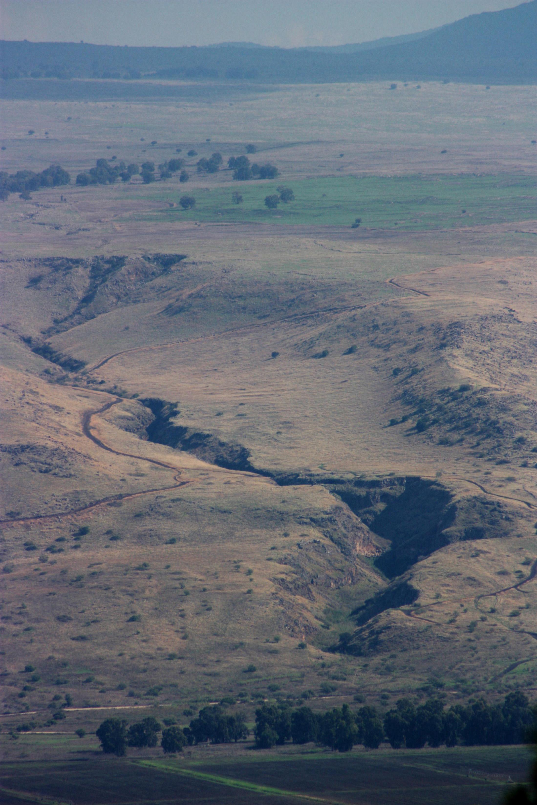 Great Rift Valley, Geology of Israel